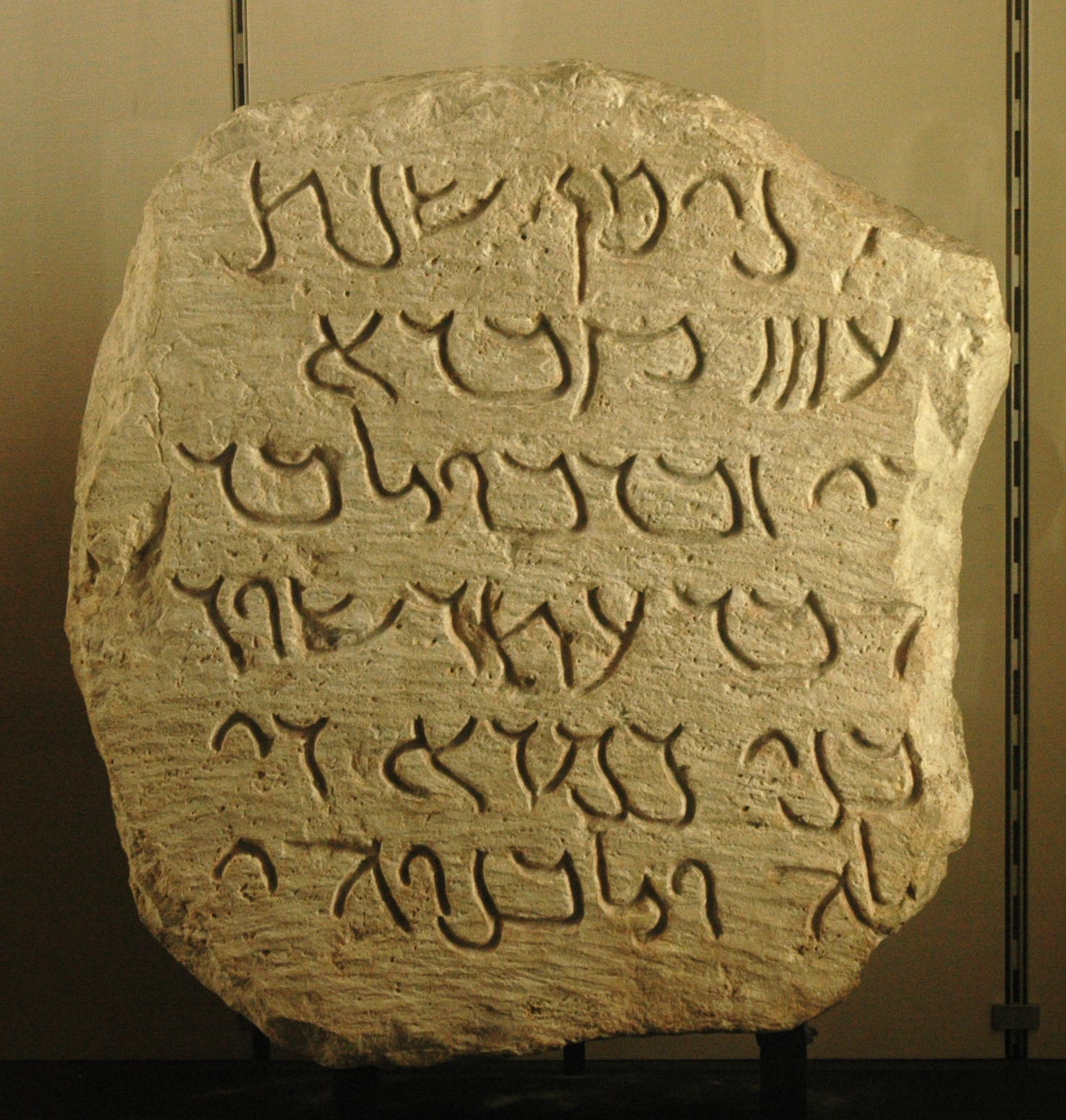 Funerary slabstone bearing an inscription, Limestone, 4 BC. From Palmyra.